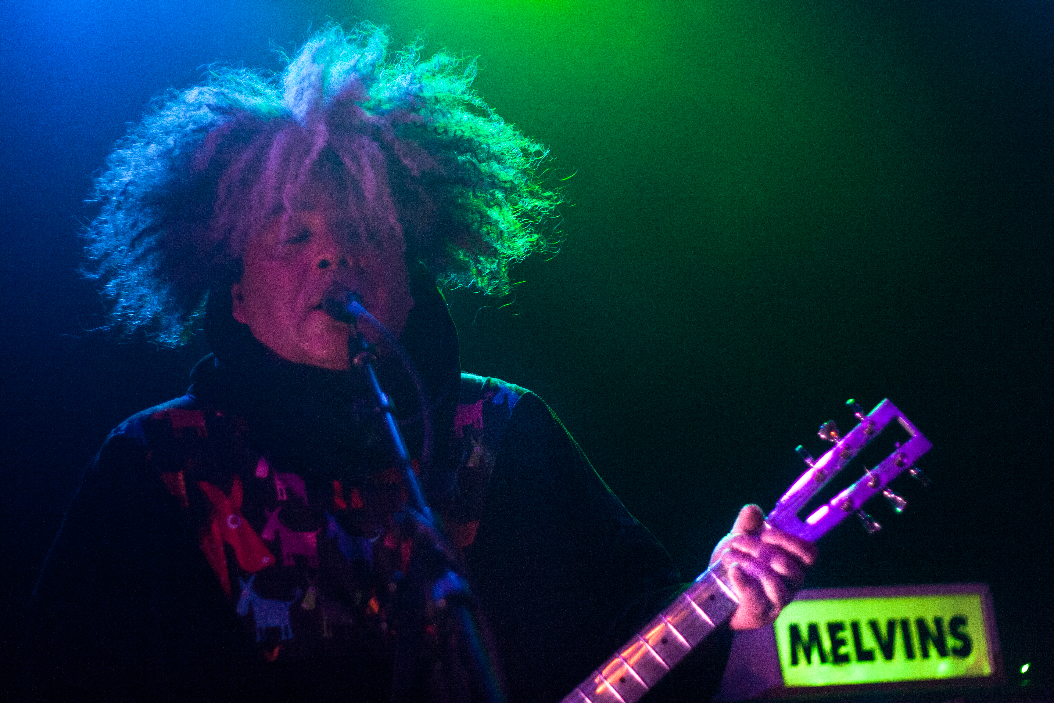 On September 19th, 2010 at Slim's, San Francisco, California.